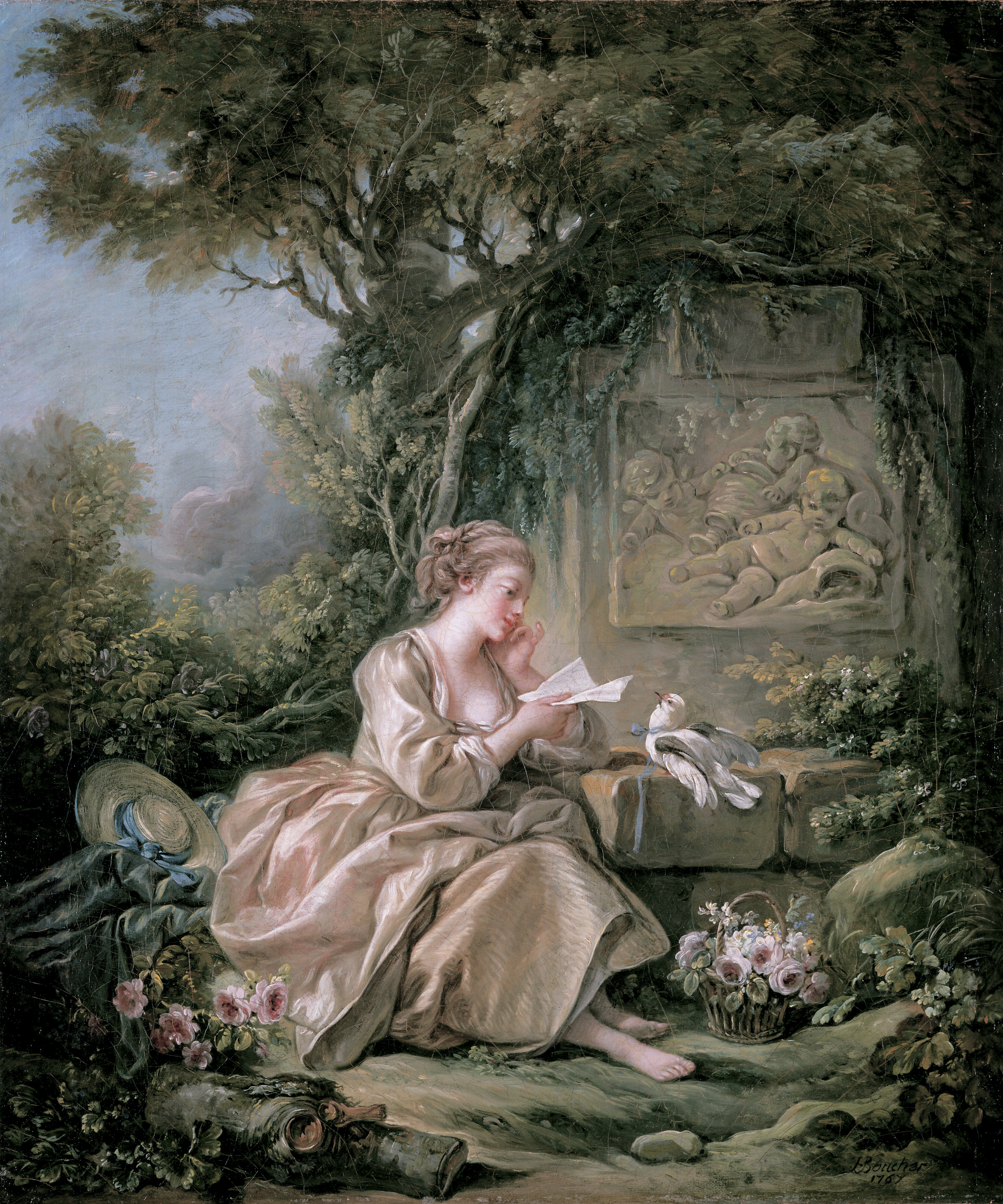 The secret message oil on canvas 60 x 50,5 cm signed b.r.: FBoucher / 1767